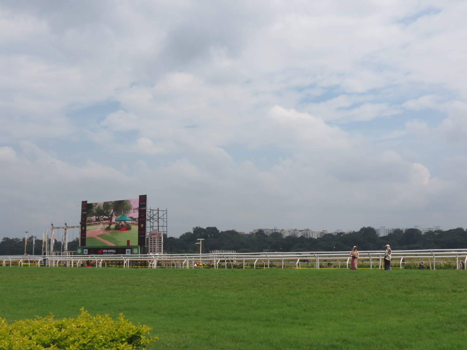 Race Course Pune